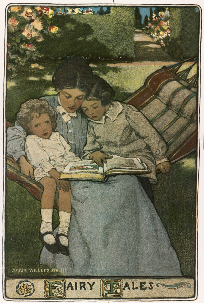 File name: 07_11_000395 Title: Fairy Tales Creator/Contributor: Smith, Jessie Willcox, 1863-1935 (artist); L. Prang & Co. (publisher) Date issued: 1861-1897 (approximate) Copyright date: Physical description note: Proof print Genre: Chromolithographs; Proofs; Group portraits; Genre prints Location: Boston Public Library, Print Department Rights: No known restrictions Flickr data on 2011-08-07: Camera: Sinar AG Sinarback 54 FW, Sinar m License: CC BY 2.0 User: Boston Public Library BPL